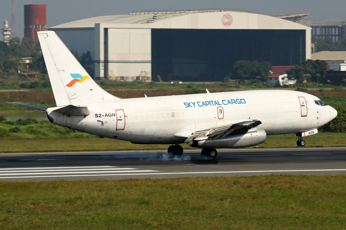 Sky Capital Airlines Boeing 737-209 at Hazrat Shahjalal International Airport, Dhaka in August 2018